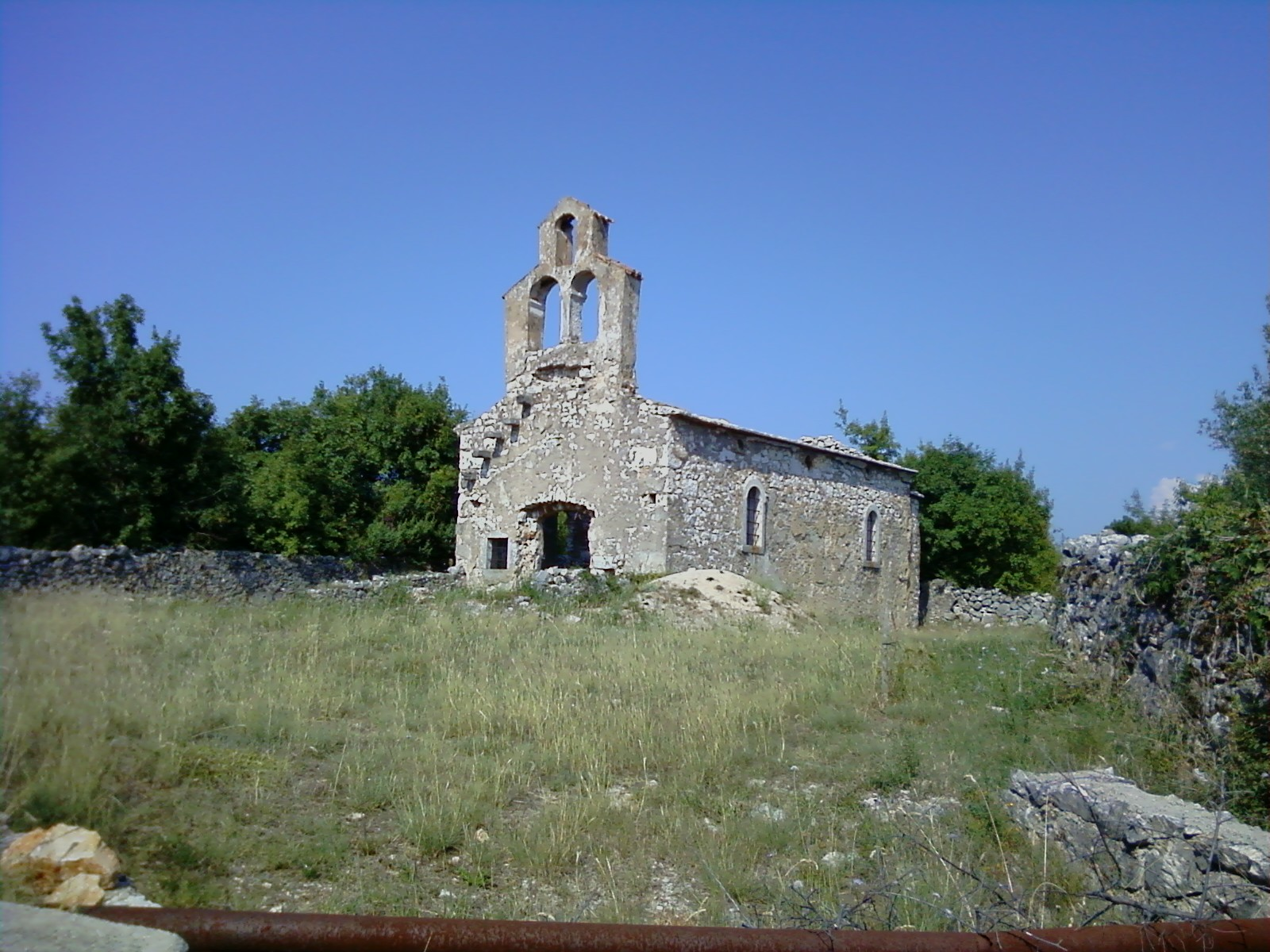 Ruins of Church of All Saints in village Sužan ( municipality Dobrinj ) on island Krk in Croatia. Built in 1514., abandoned 1927.